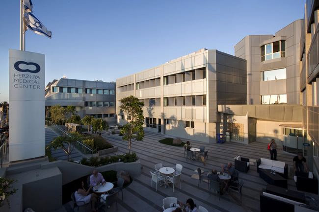 Herzliya Medical Center Front View